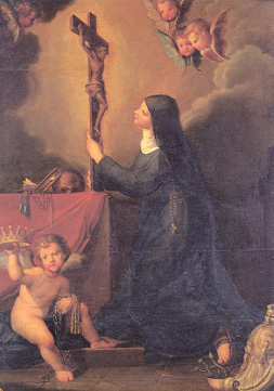 Gian Andrea Lazzarini (and/or his workshop, or school of Gian Andrea Lazzarini), Beata Serafina in preghiera, oil on canvas. Musei Civici, Pesaro. (Original caption: ‘Gian Andrea Lazzarini e scuola, Beata Serafina in preghiera, XVIII secolo, olio su tela, Pesaro: depositi dei Musei Civici.’)